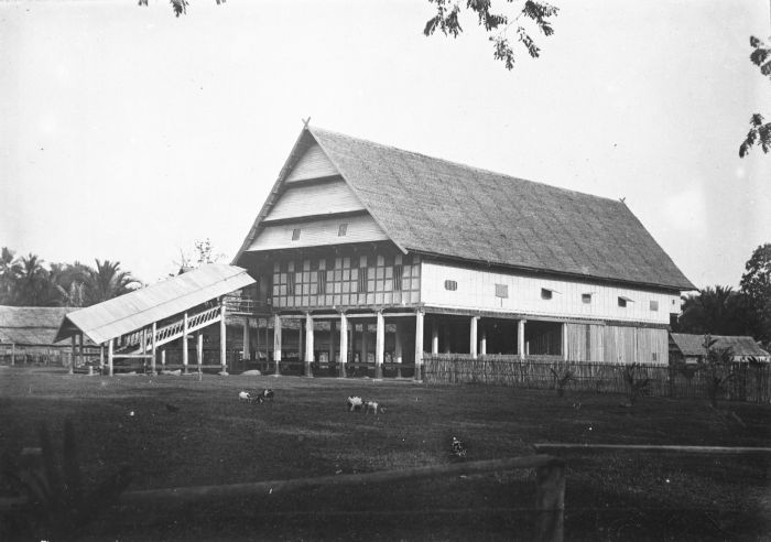 Palace of the datu at Palopo